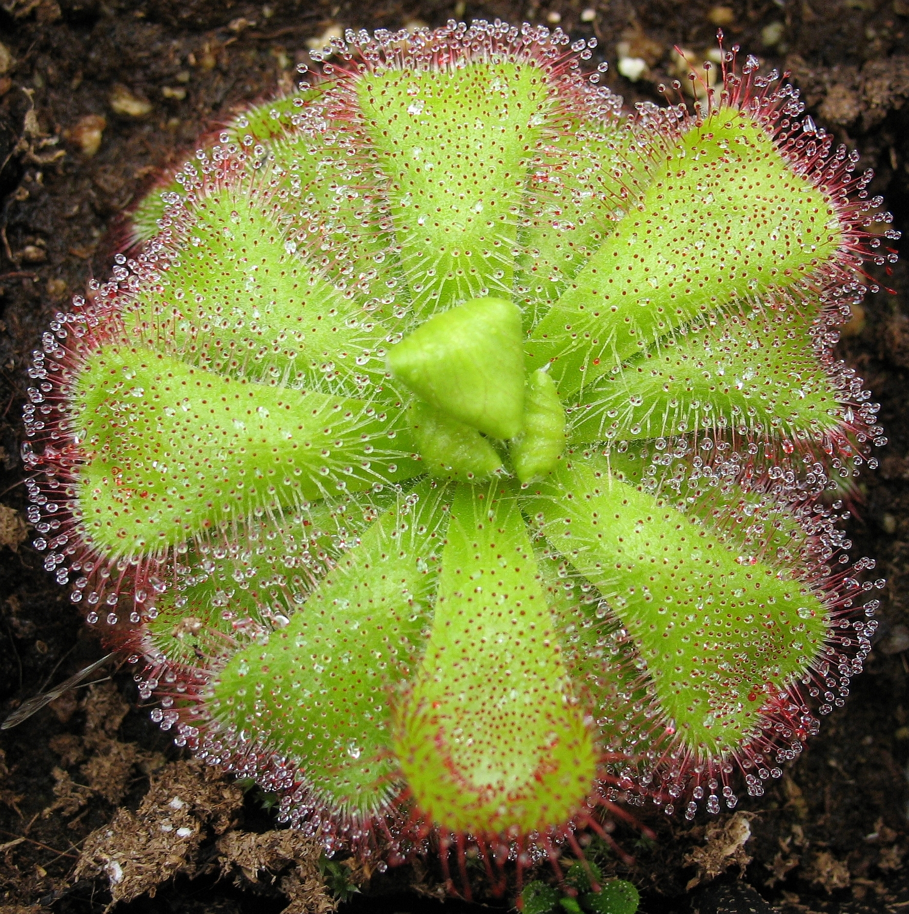 The author licensed this picture in a letter to the uploader as follows: "Ich lizensiere die Bilder [..] unter der GNU-FDL." (Translation: "I license the pictures [..] as GNU-FDL.")